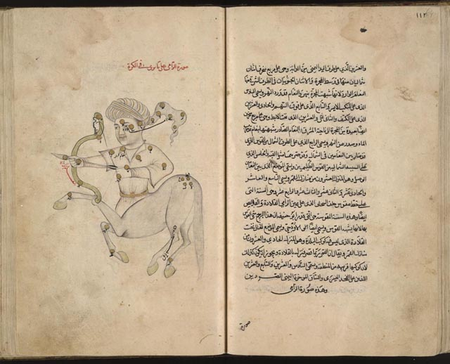 An image of constellation Sagittarius by the Persian astronomer Al-Sufi from the 'Depiction of Celestial Constellations'